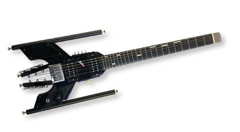 Leduc guitar, model: "Invader", year: 1983, ebony fingerboard, mahogany body and neck through the body, Seymour Duncan "Invader" pickups.